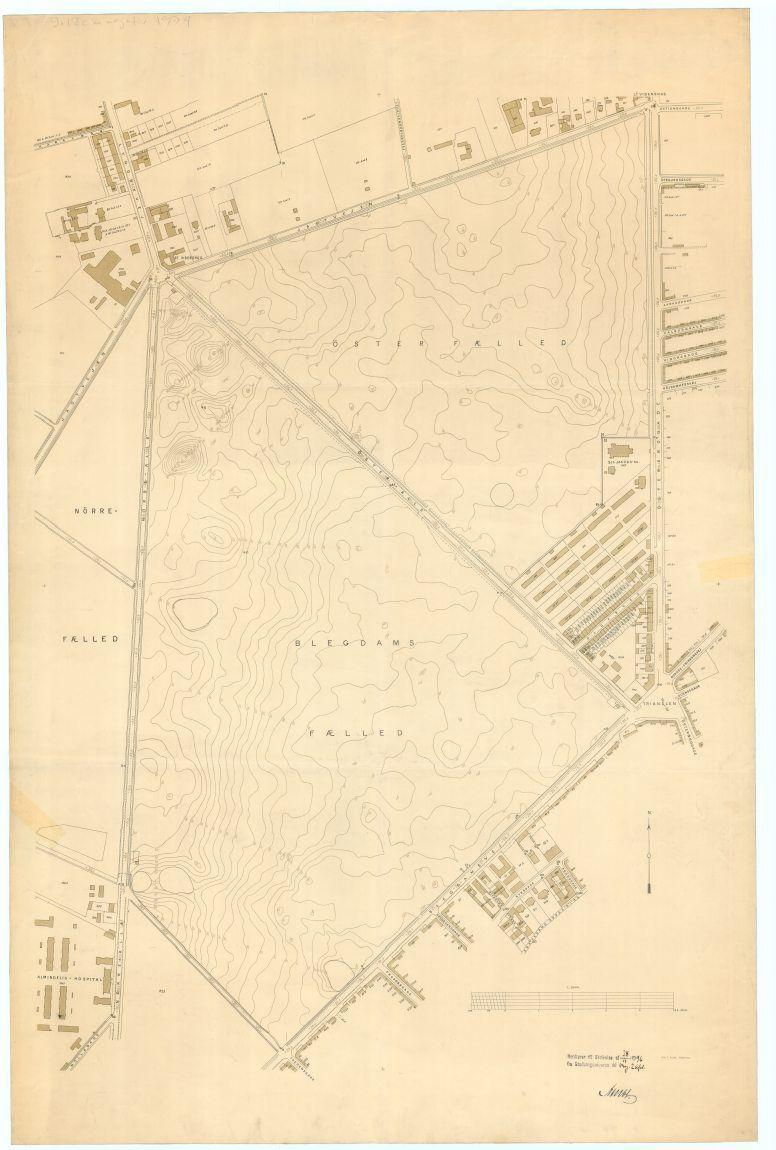 Map of Øster Fælled amd Blegdamsfælled in Copenhagen, Denmark